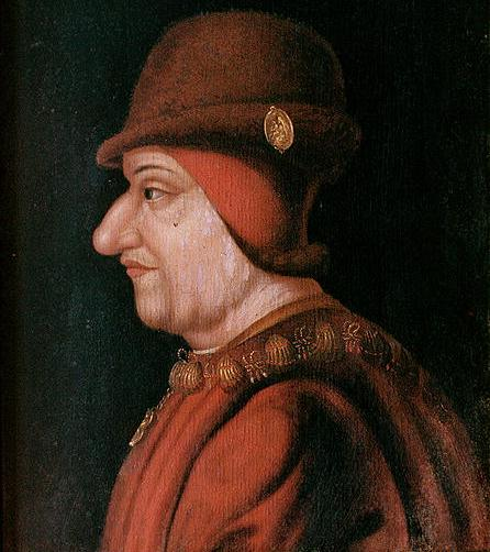 Portrait of Louis XI of France.